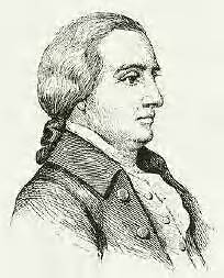 William Whipple, Jr., signer of Declaration of Independence